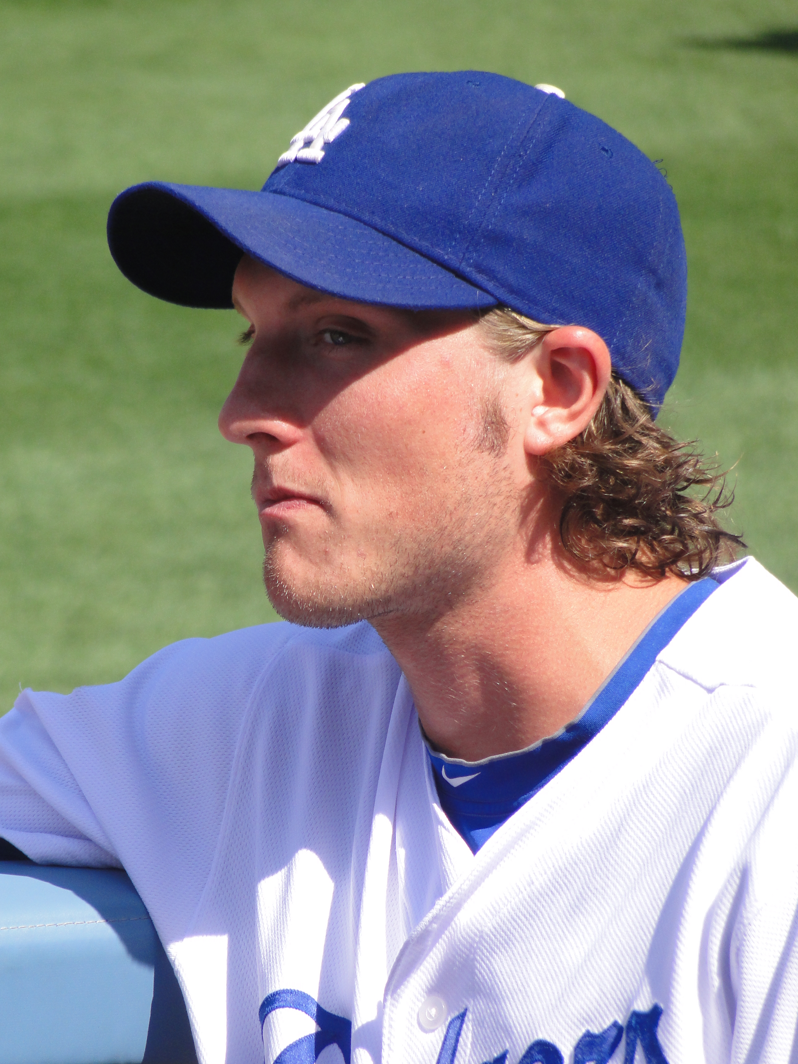 Description John Ely (baseball) at Dodger Stadium Date20 June 2010SourceI (Cbl62 (talk)) created this work entirely by myself.AuthorCbl62 (talk) 06:02, 27 June 2010 (UTC) 06:02, 27 June 2010 . . Cbl62 . . 2,592×3,456 (2.97 MB) John Ely (baseball) at Dodger Stadium